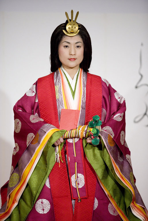 A young woman models a Junihitoe, a 12-layered formal court dress worn by women during the Heian period, during a demonstration of traditional Japanese culture Monday for G-8 spouses at the Windsor Hotel Toya Resort and Spa in Toyako, Japan.